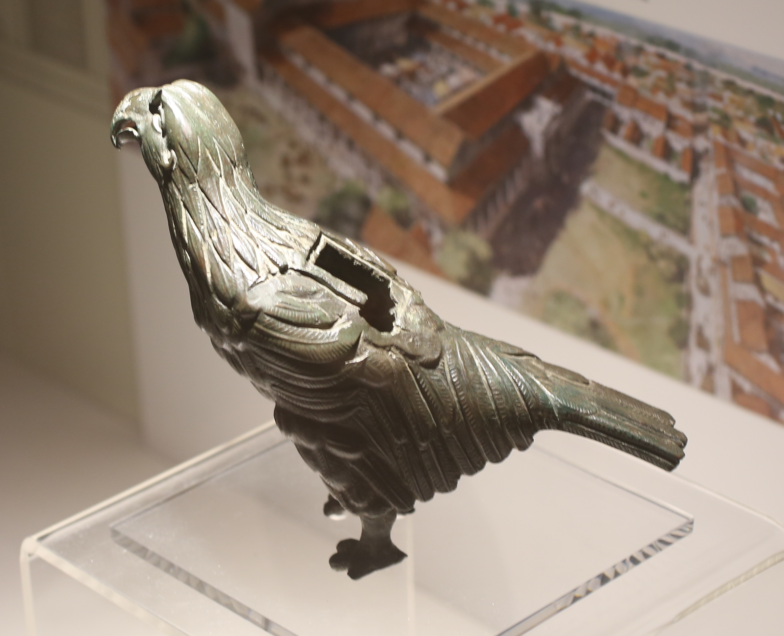 Photo of the silchester eagle